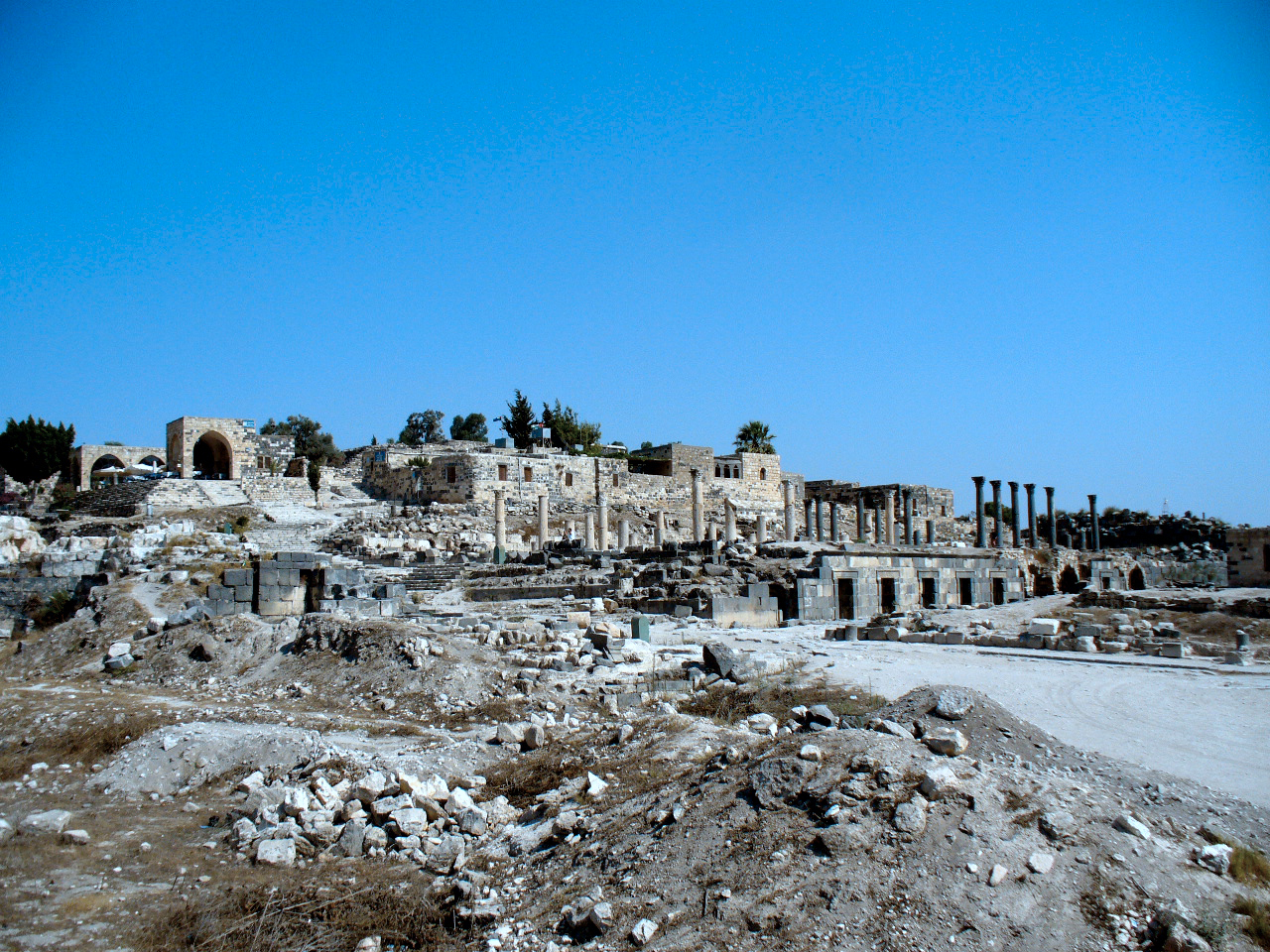 Gadara – Umm Qais (Arabic: أم قيس, also transliterated as Umm Qays) is a town in northern Jordan near the site of the ancient town of Gadara. It is situated in the extreme north-west of the country, where the borders of Jordan, Israel and Syria meet, perched on a hilltop (378 metres above sea level), overlooking the sea of Tiberias, the Golan heights and the Yarmuk gorge. Umm Qais is in Jordan's Irbid Governorate and belongs to the Bani Kinanah Department.